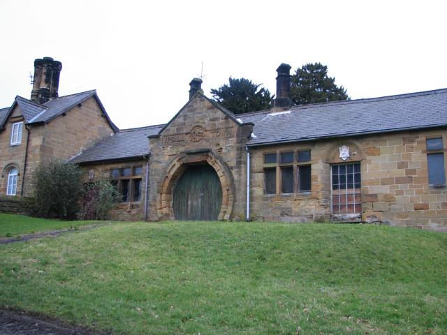 Upsall. This is something like the derelict village hall - most interesting doorway and sign above it.